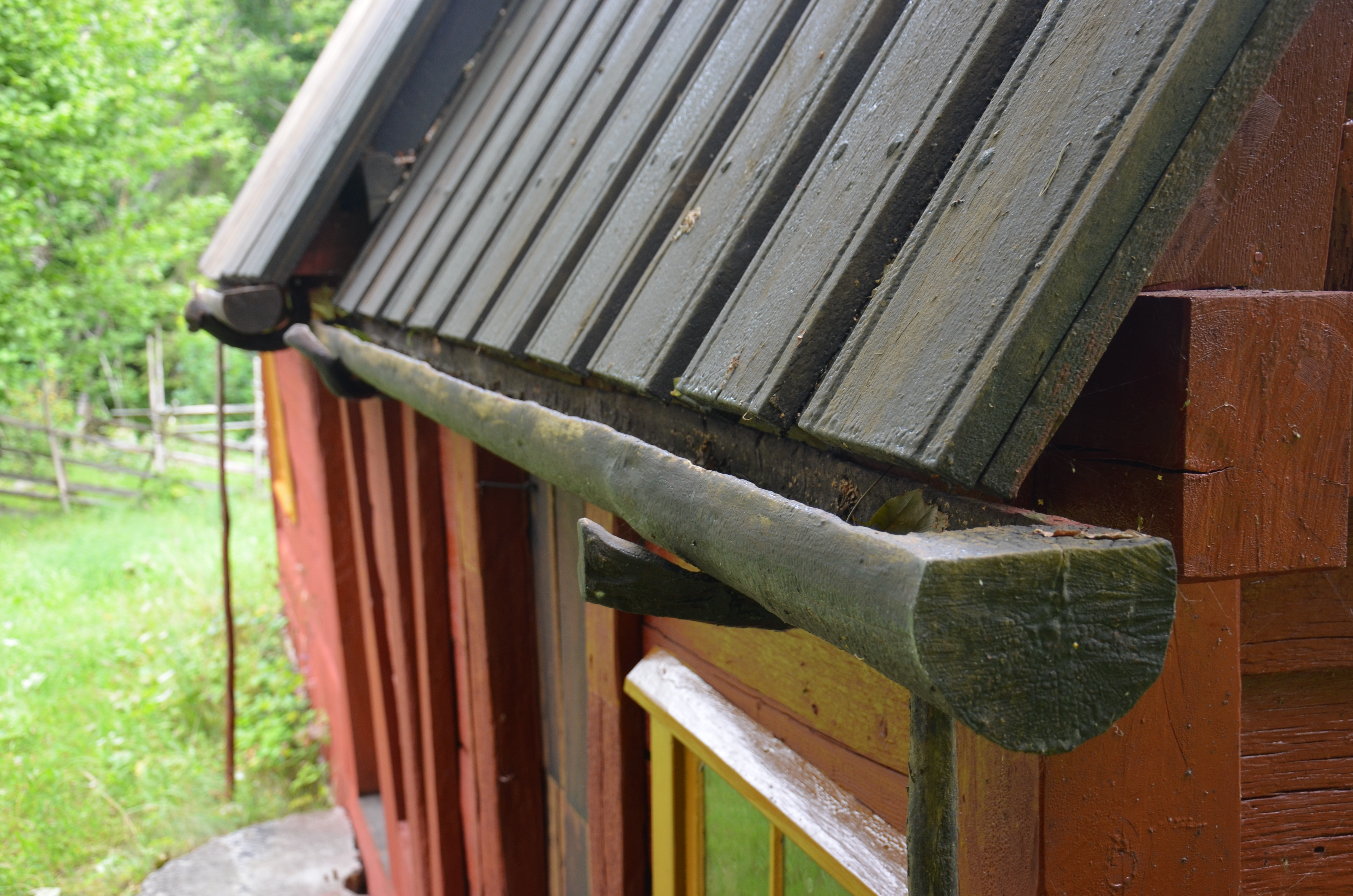 Drain pipe of wood, Danielsson's torp, Tingstäde socken, Gotland, Sweden